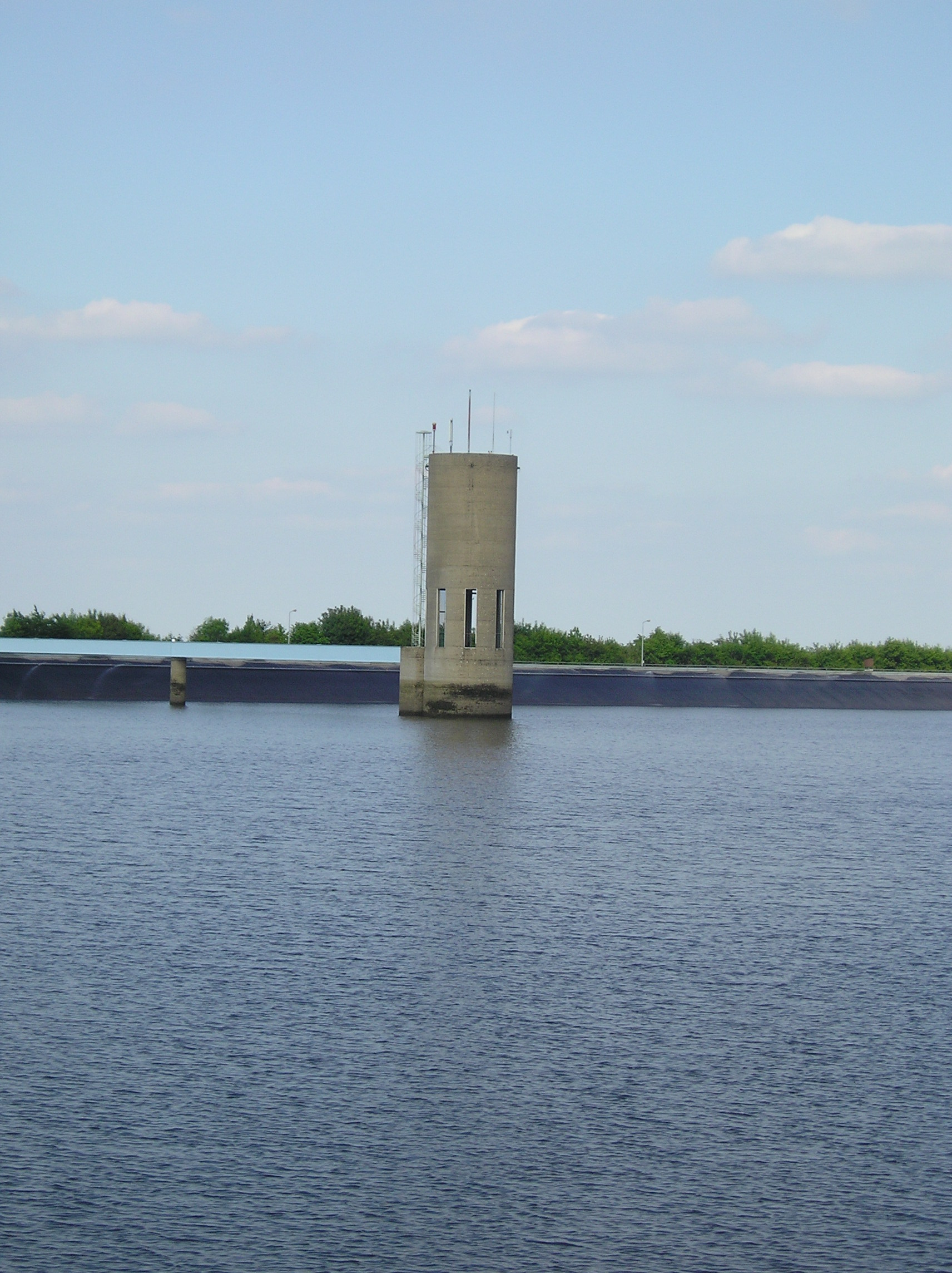 Vianden - entry tower in reservoir water power station